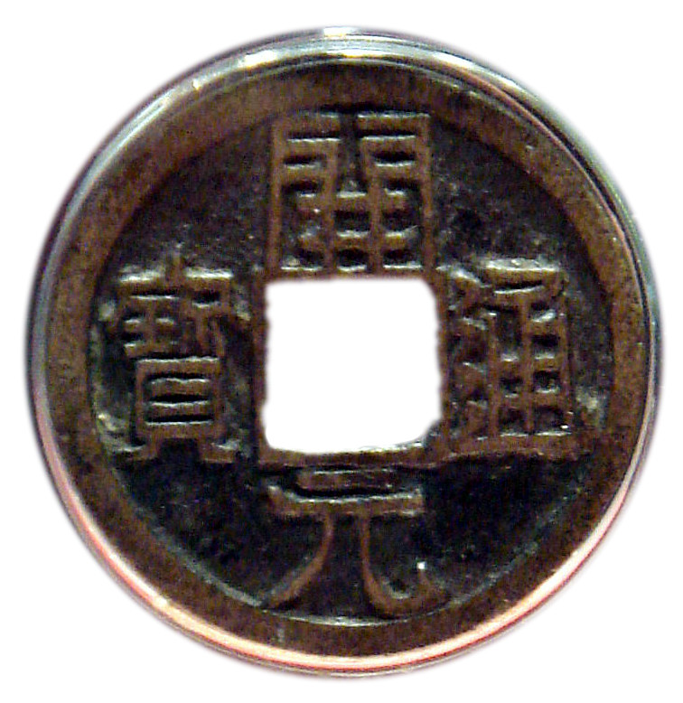 Tang Dynasty Kai Yuan Tong Bao coin (Chinese: 開元通寶